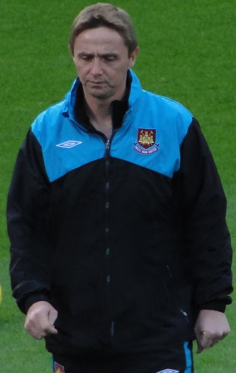 West Ham coach, Kevin Keen, before a game against Burnley November 2009